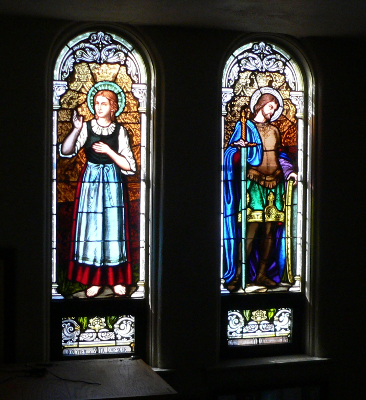 Stained-glass window in room at southwest corner of St. Leonard's Catholic Church in Madison, Nebraska. The church was designed in Romanesque Revival style by architect Jacob M. Nachtigall, and built in 1913. With its rectory and a garage, it is listed in the National Register of Historic Places. The window on the left depicts St. Zita.